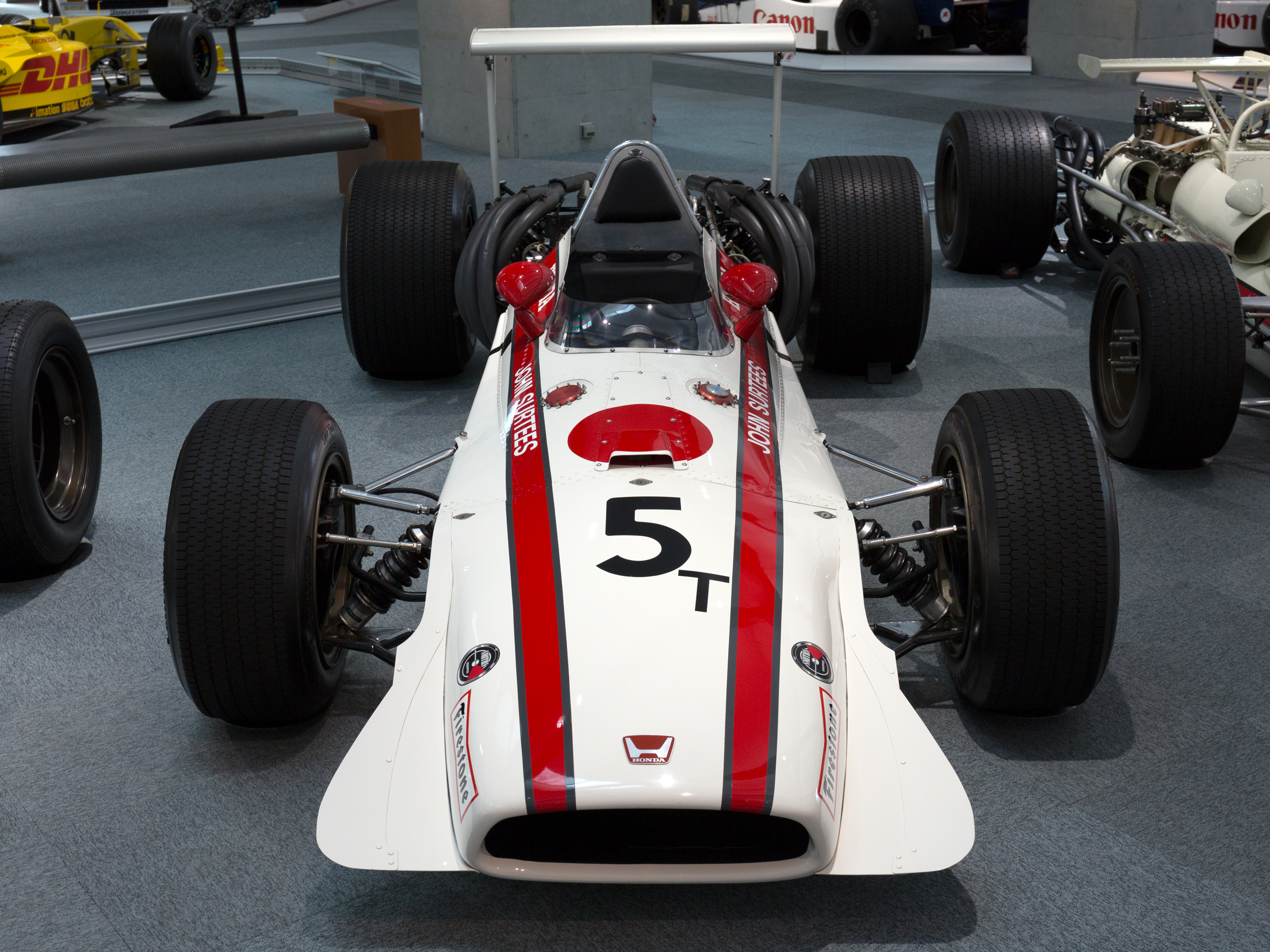 1968 Honda RA301 of John Surtees